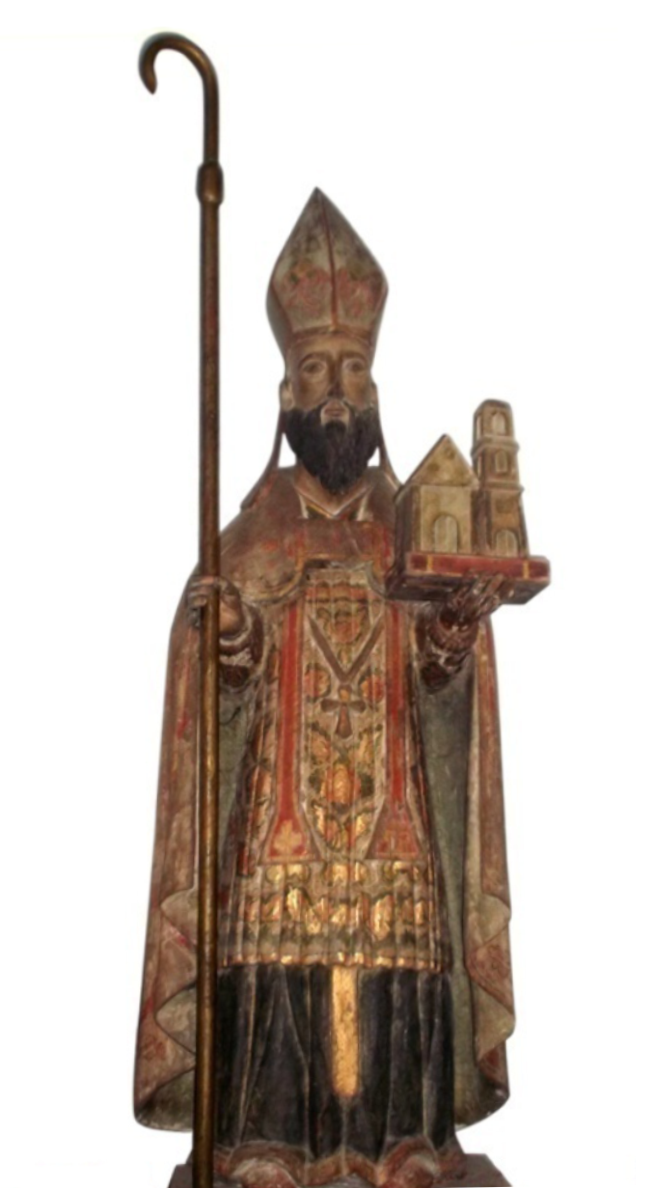 An image of the statue of Saint Agustine in Ilaya.